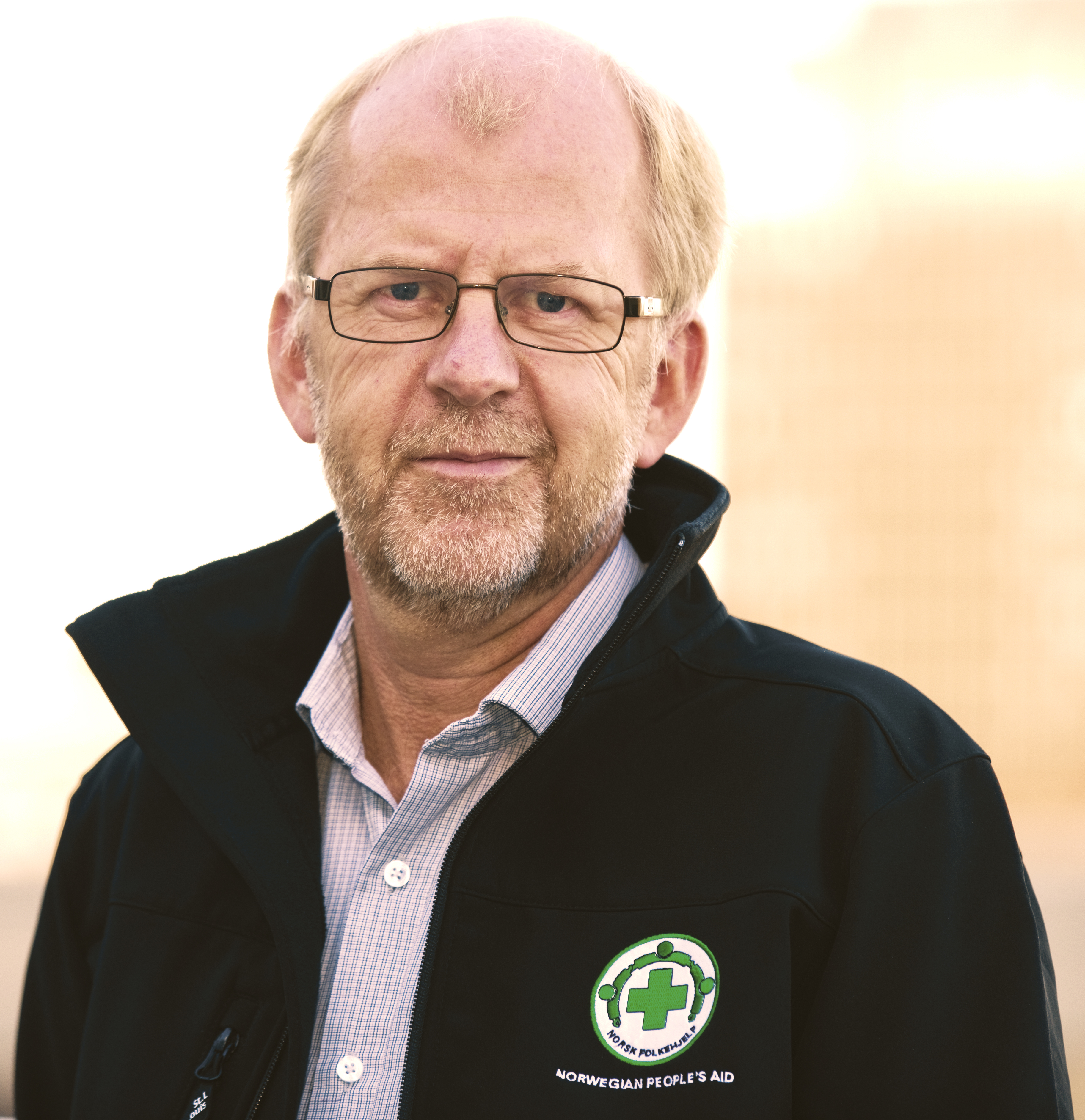 Orrvar Dalby, Secretary-General at Norwegian People's Aid